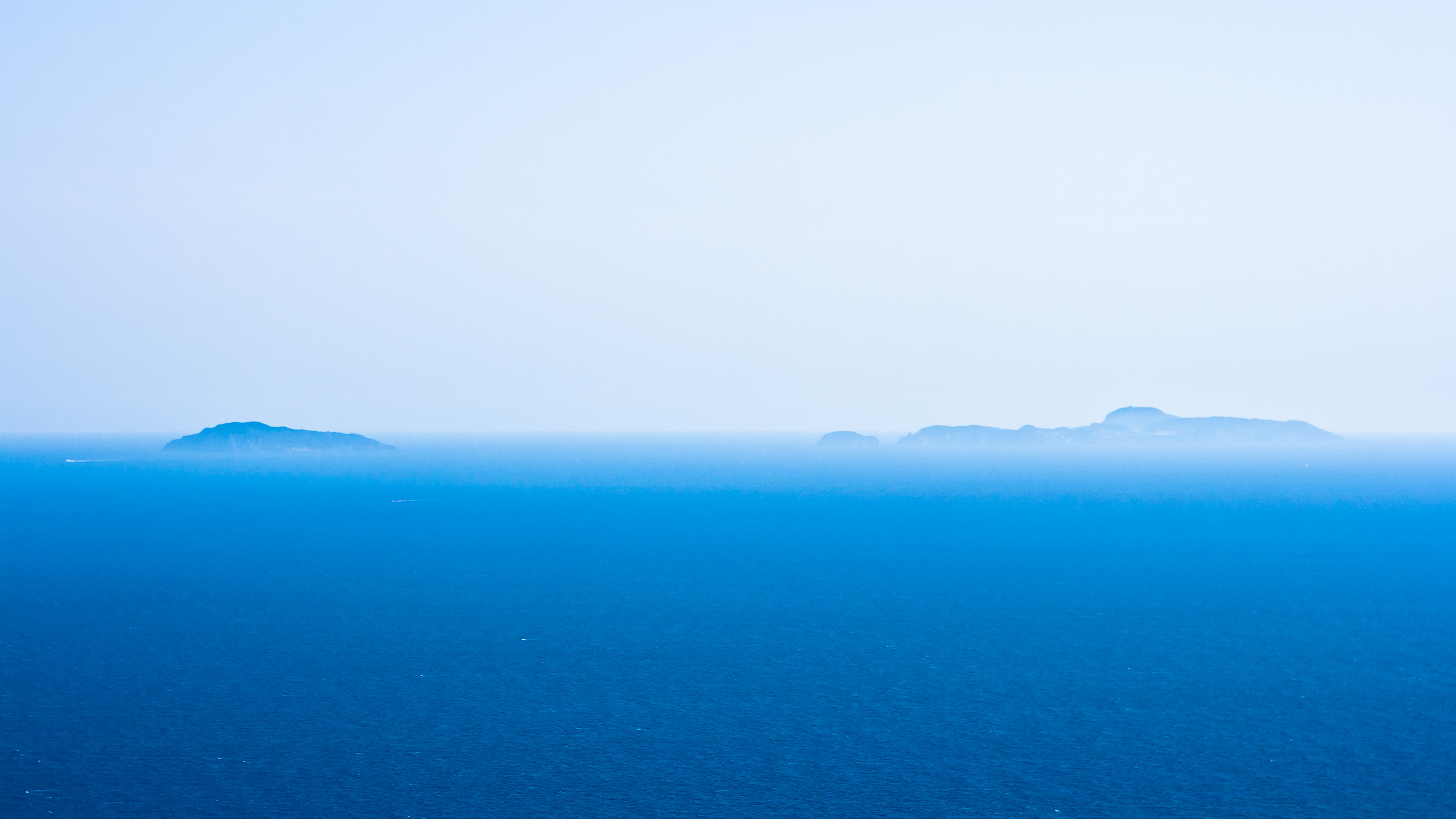 Zannone and Ponza seen from Circeo. -- Palmarola is a craggy, mostly uninhabited island in the Tyrrhenian Sea off the west coast of Italy. It is the second largest of the Pontine Islands and located about 10 kilometres west from Ponza. Palmarola has an extremely rocky coast dotted with natural grottos, bays, cliffs, and crags. The island is primarily a nature reserve, but there are a handful of ports where boats can land and several restaurants that cater to tourists during the summer season. A few small beaches exist. Pope Silverius was exiled to and died on Palmarola. A point of interest is Cava Mazzella, a natural cave. -- Ponza (Italian: Isola Di Ponza) is the largest of the Italian Pontine Islands archipelago, located 33 km south of Cape Circeo in the Tyrrhenian Sea. It also the name of the commune of the island, a part of the province of Latina in the Lazio region. Ponza and Gavi are the remains of a caldera rim of an extinct volcano, with a surface area of 7.3 square kilometers. Ponza is approximately 5.5 Miles long by 1.5 miles (2.4 km) at its widest. It is a crescent shaped island with one large beach called Spiaggia di Chiaia di Luna (Half Moon Beach) and a few small beaches and has a mostly rocky coast made of kaolin and tuff rock. The island has layers of Kaolinite and Bentonite which used to be mined. It has many odd natural rock formations, one looks like a monk, another looks like a giant pair of work pants, Spaccapurpo (Arco Naturale O Spaccapolpi), another looks like a patch of flowers and another one looks like mushrooms, another looks like a horseman. It has the Fantasy Rock Castle and several natural bridges and arches. It also has Faragliones or giant sea stacks made of solid rock. It has several small villages, among them are Commune di Ponza, Santa Maria and Le Forna. Ponza is often confused with nearby islands like Ischia and Capri, except Ponza has no active volcanism.